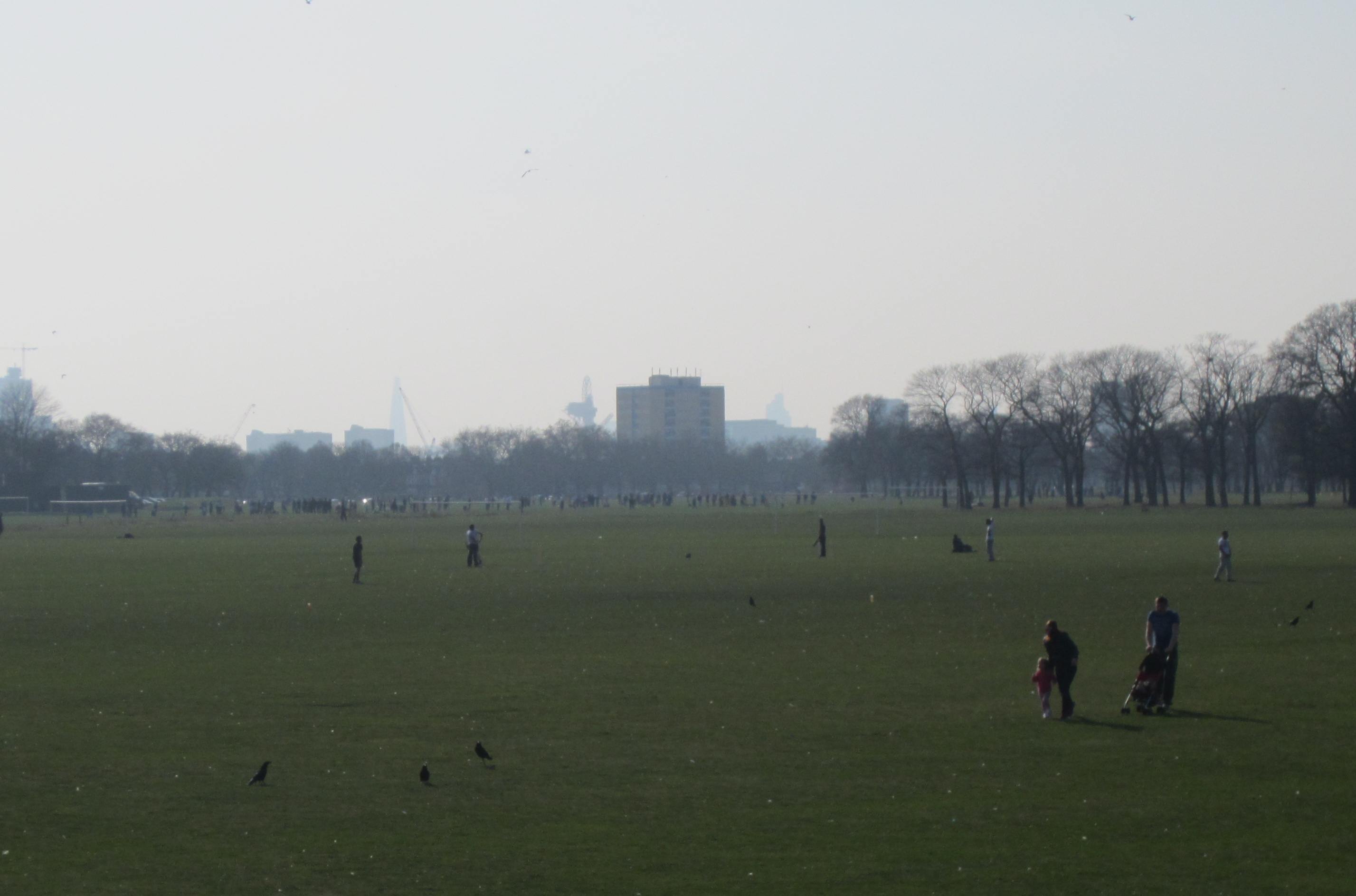 Forest Gate Wanstead Flats